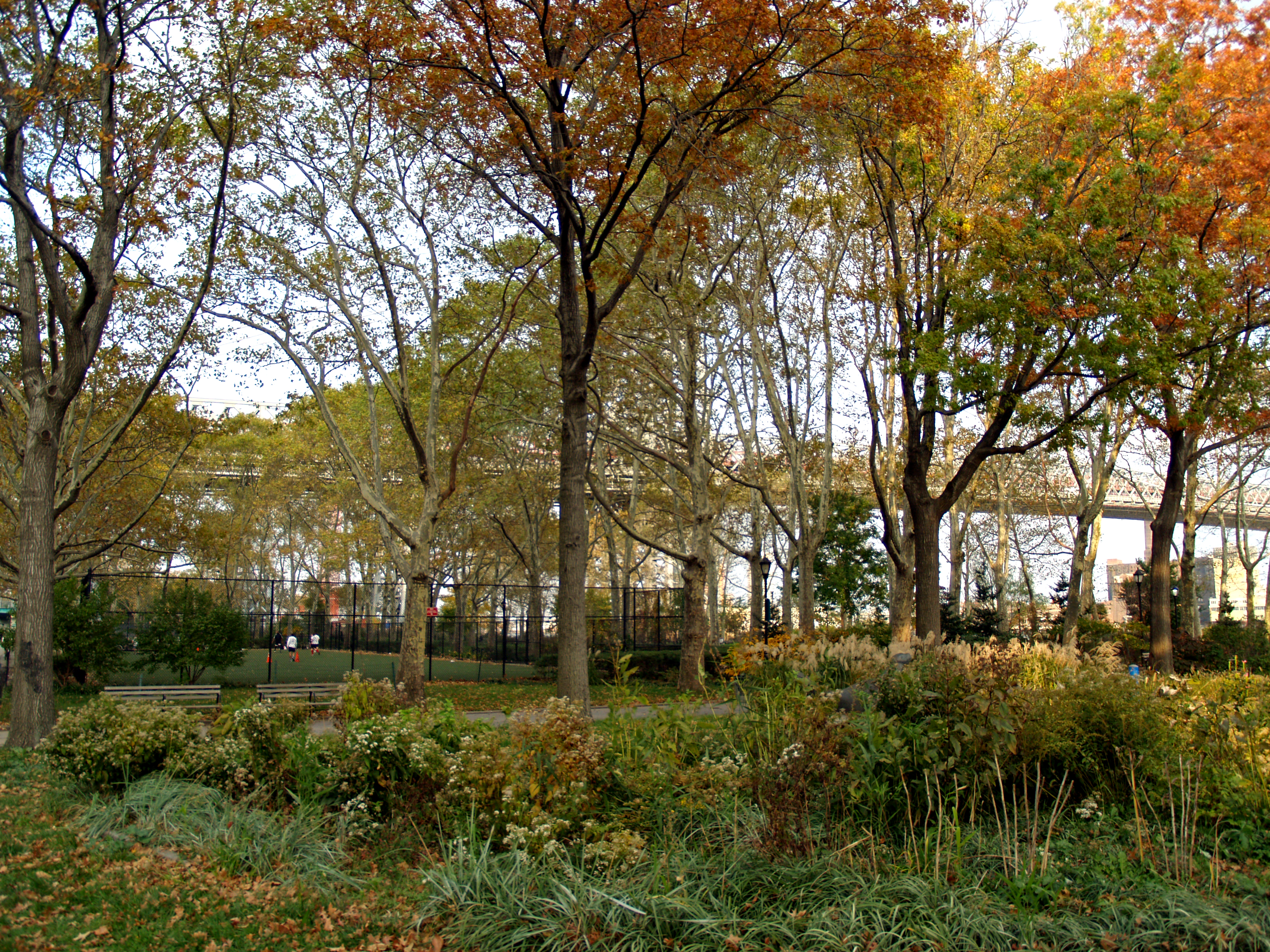 New York City's East River Park in Manhattan's East Village in the Fall of 2008. Photographer's blog post about the East River Park photographs.